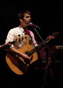 Rob Cantor of Tally Hall playing at The World Cafe Live in Philadelphia, PA on 10/25/06